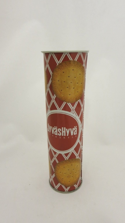 Photo of a cookie can from the 1970s. Colorbalanced.